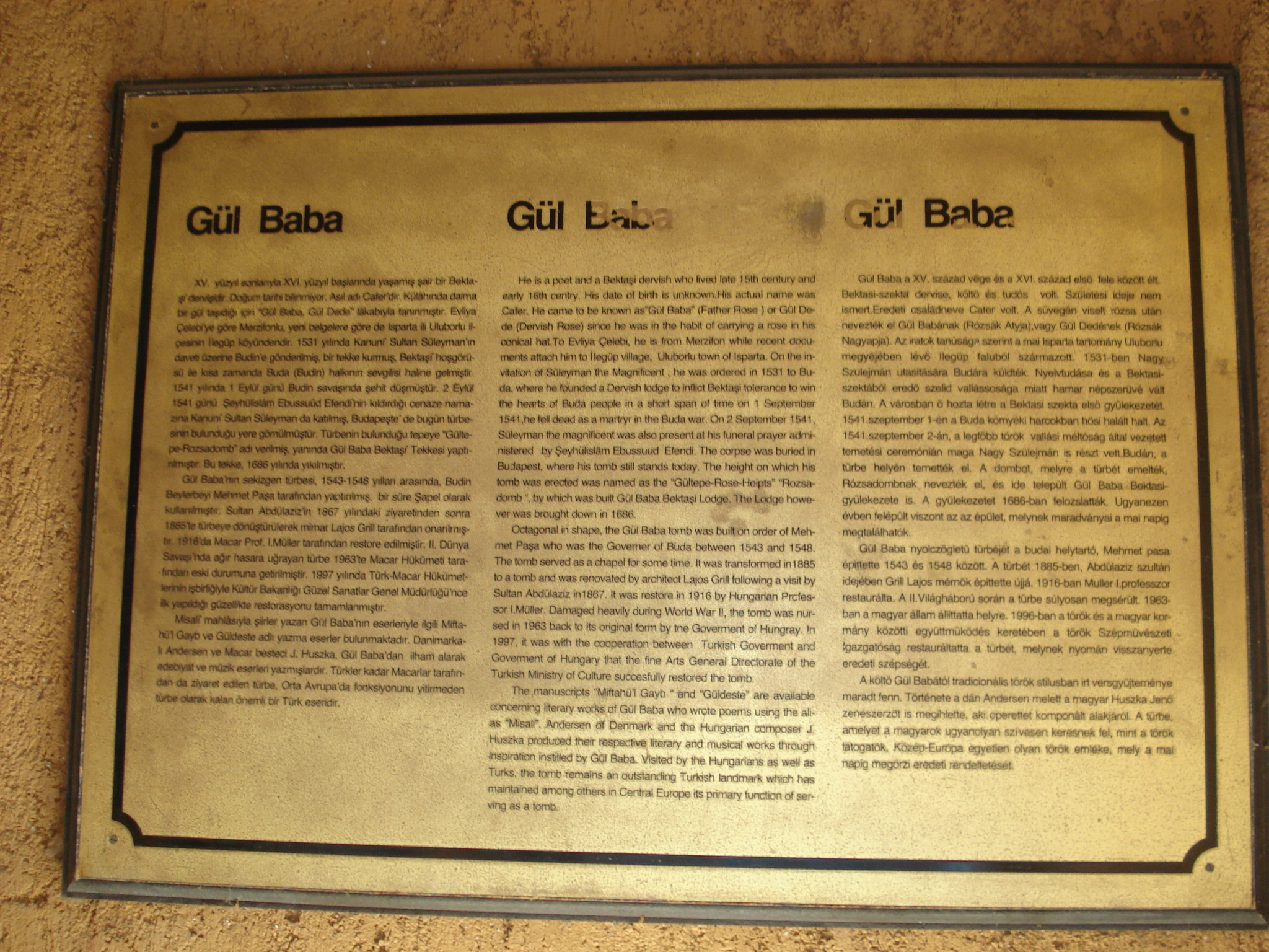 Information about Gül Baba